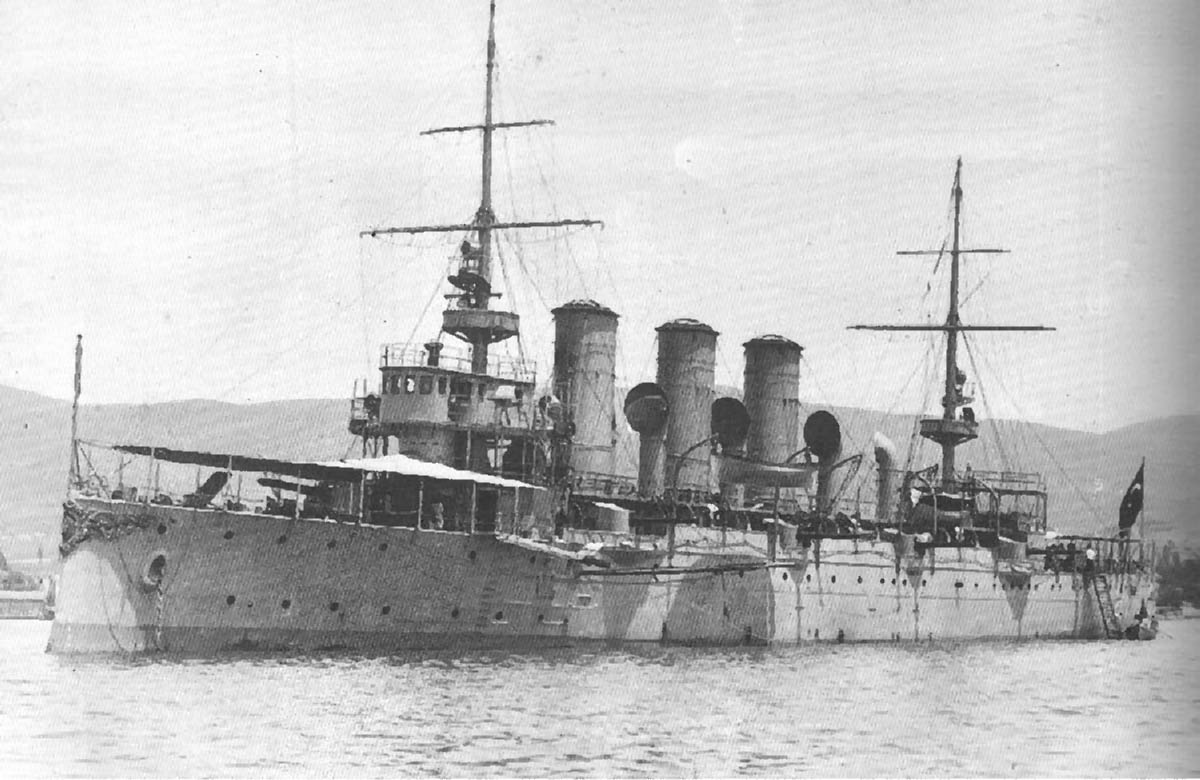 Ottoman cruiser Mecidiye in Thessaloniki, 1911.